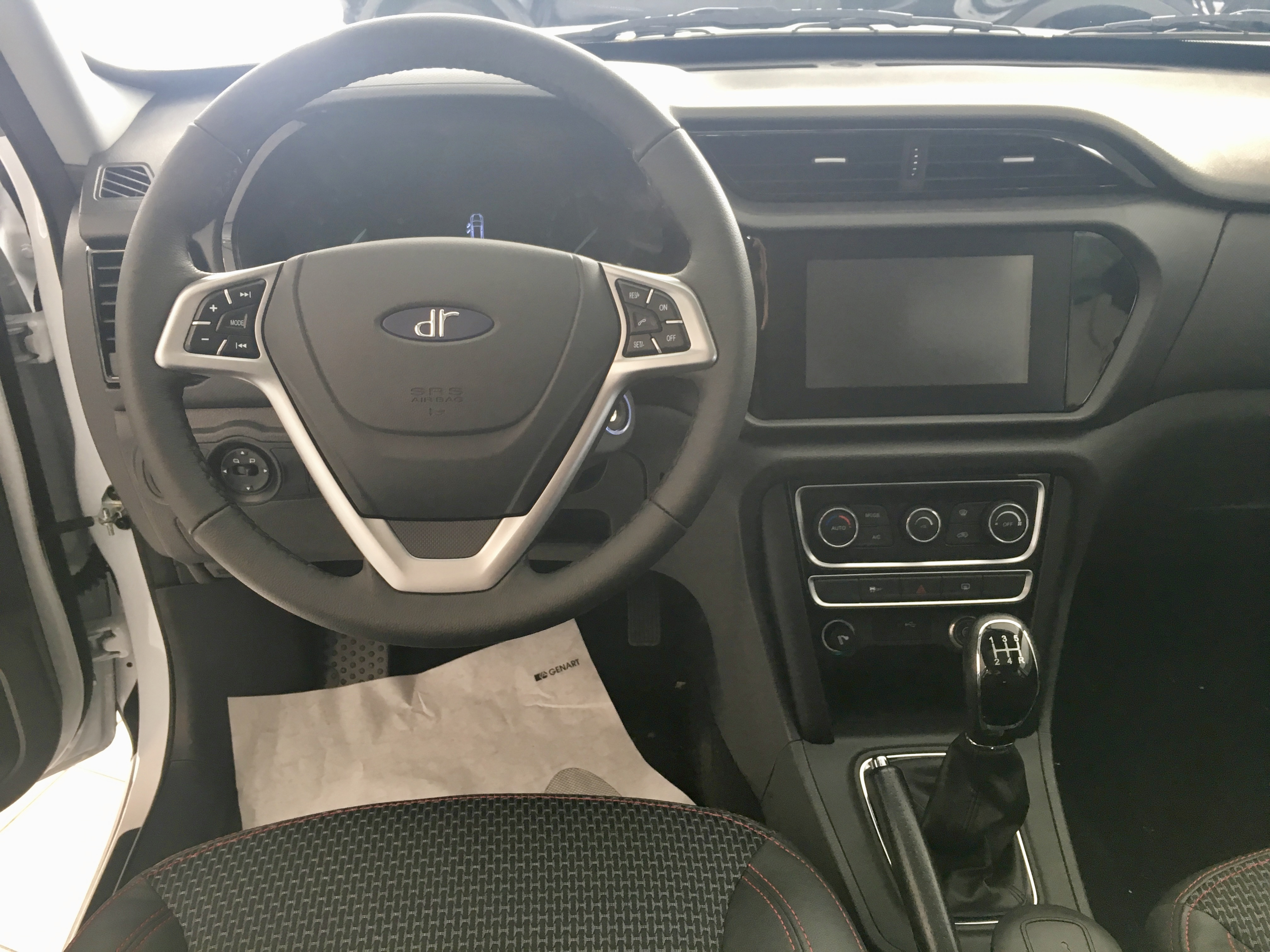 DR Evo5 1.6 LPG interior